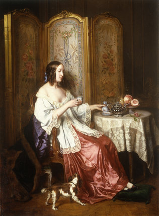 A Cup of Chocolate